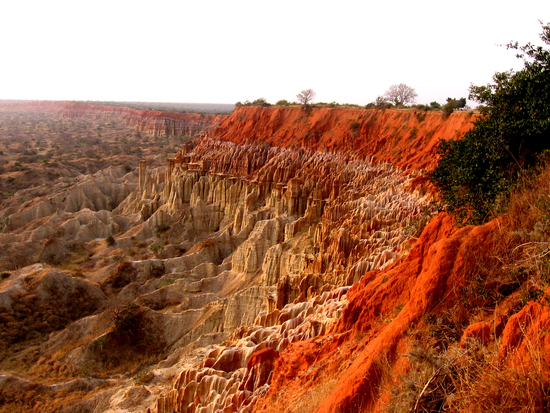 Miradouro da Lua (watchpoint or valley of the moon), situated at the coast 40 km south of Luanda, Angola